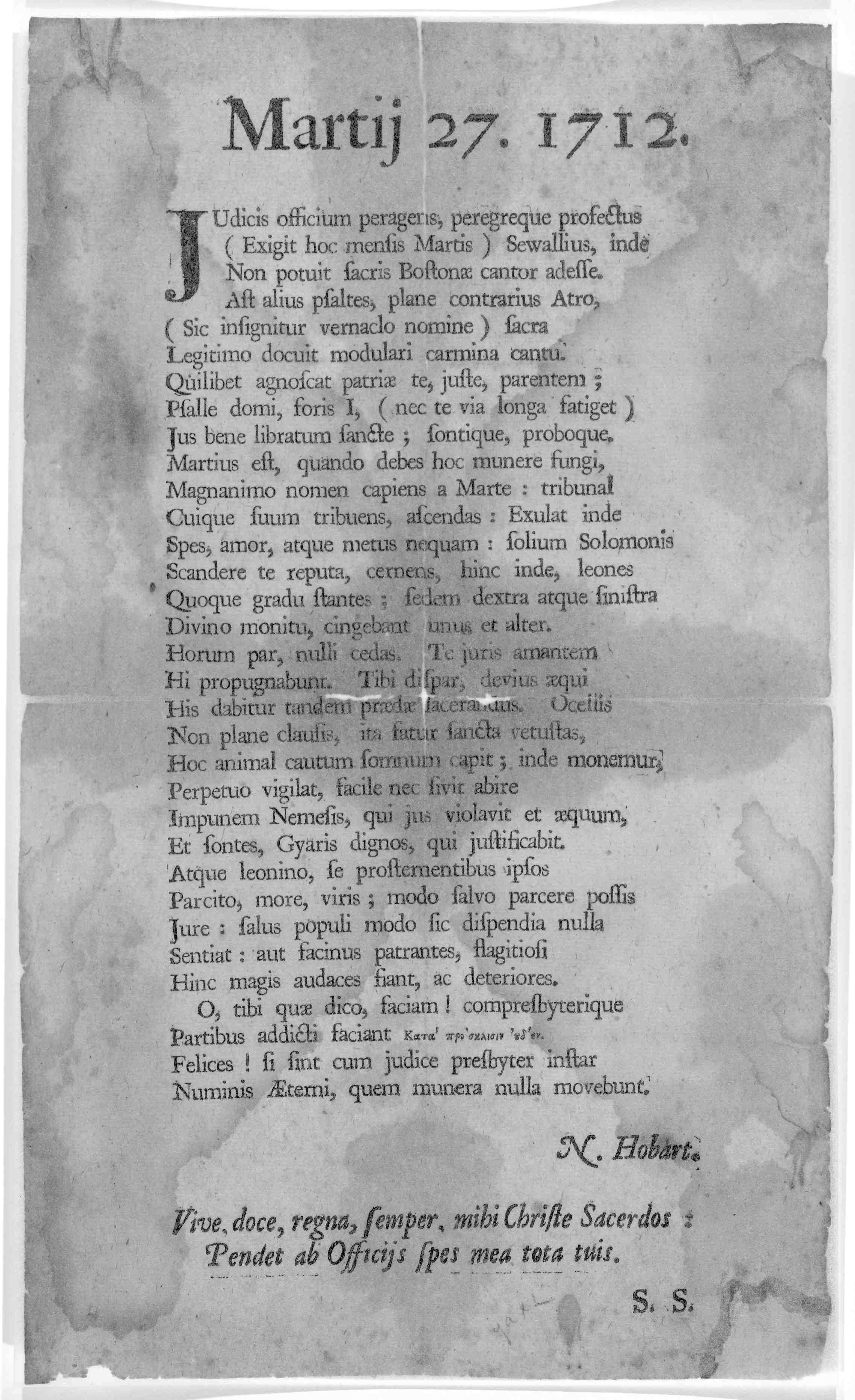 Photograph of broadside of poem written in Latin by Nehemiah Hobart, originally of Hingham, Massachusetts, and printed at Boston 27 March 1712 by Samuel Sewall of Boston. The Library of Congress, Washington, D.C.